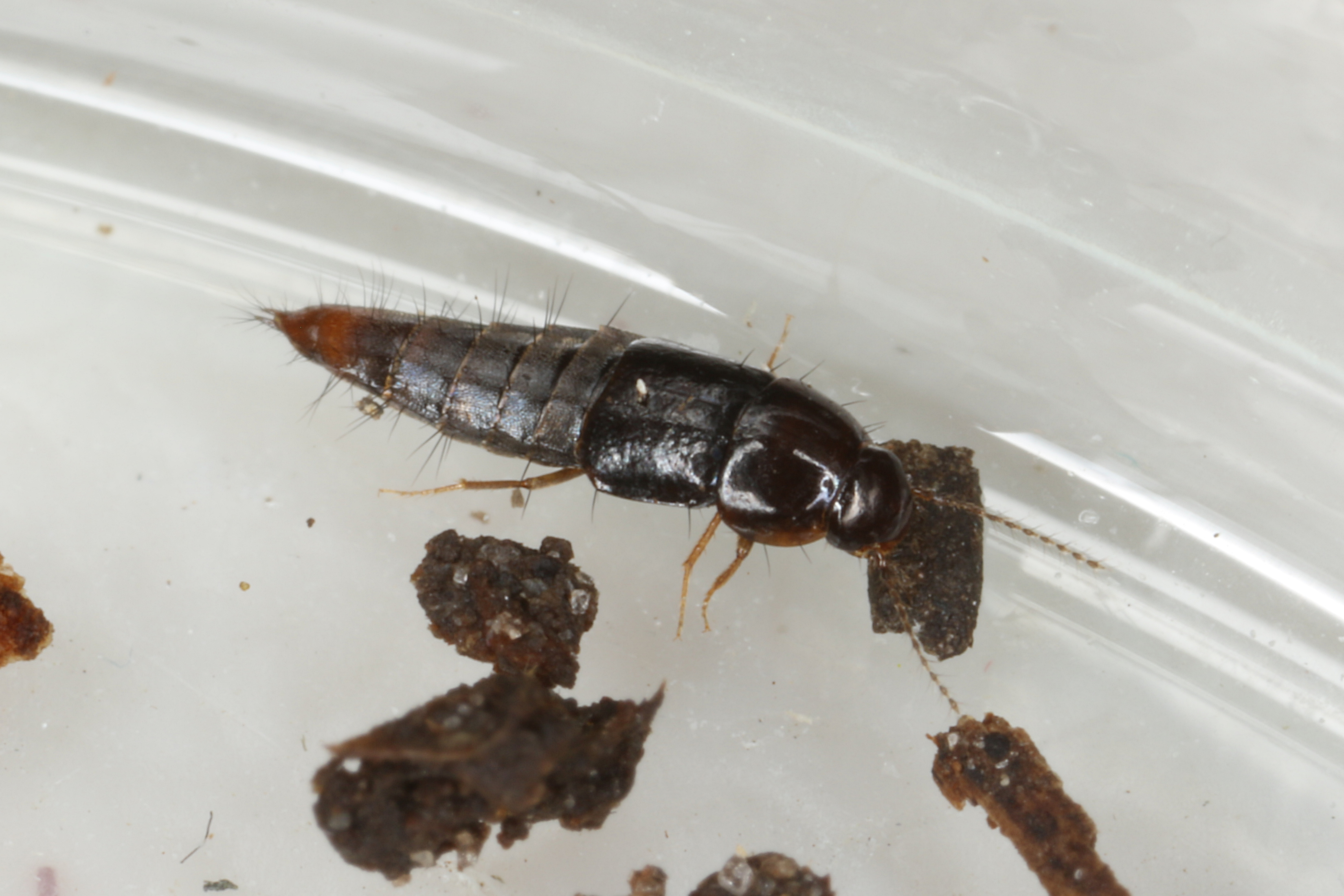 Habrocerus capillaricornis (Gravenhorst, 1806), sifted from leaf litter (mainly pine), Søborg Denmark, 10 April 2016